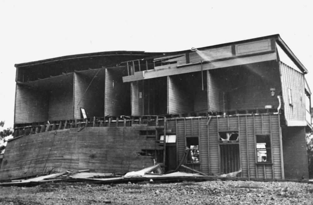 Flood damaged, two-storey house at Clermont, 1916. The 'Clermont Disaster' was caused by a cyclone that crossed the coastline between Bowen and Mackay on 27 December 1916. Torrential rain over the catchments of Wolfgang and Sandy Creeks above Clermont precipitated great flooding that cost 61 lives and caused enormous damage to buildings and livestock. The lower part of Clermont was submerged and the Theresa Creek recorded its highest flood level (Information taken from: B. Harman, Documentary and investigation of the Clermont storm, December, 1916). This image shows a devasted house at Clermont.